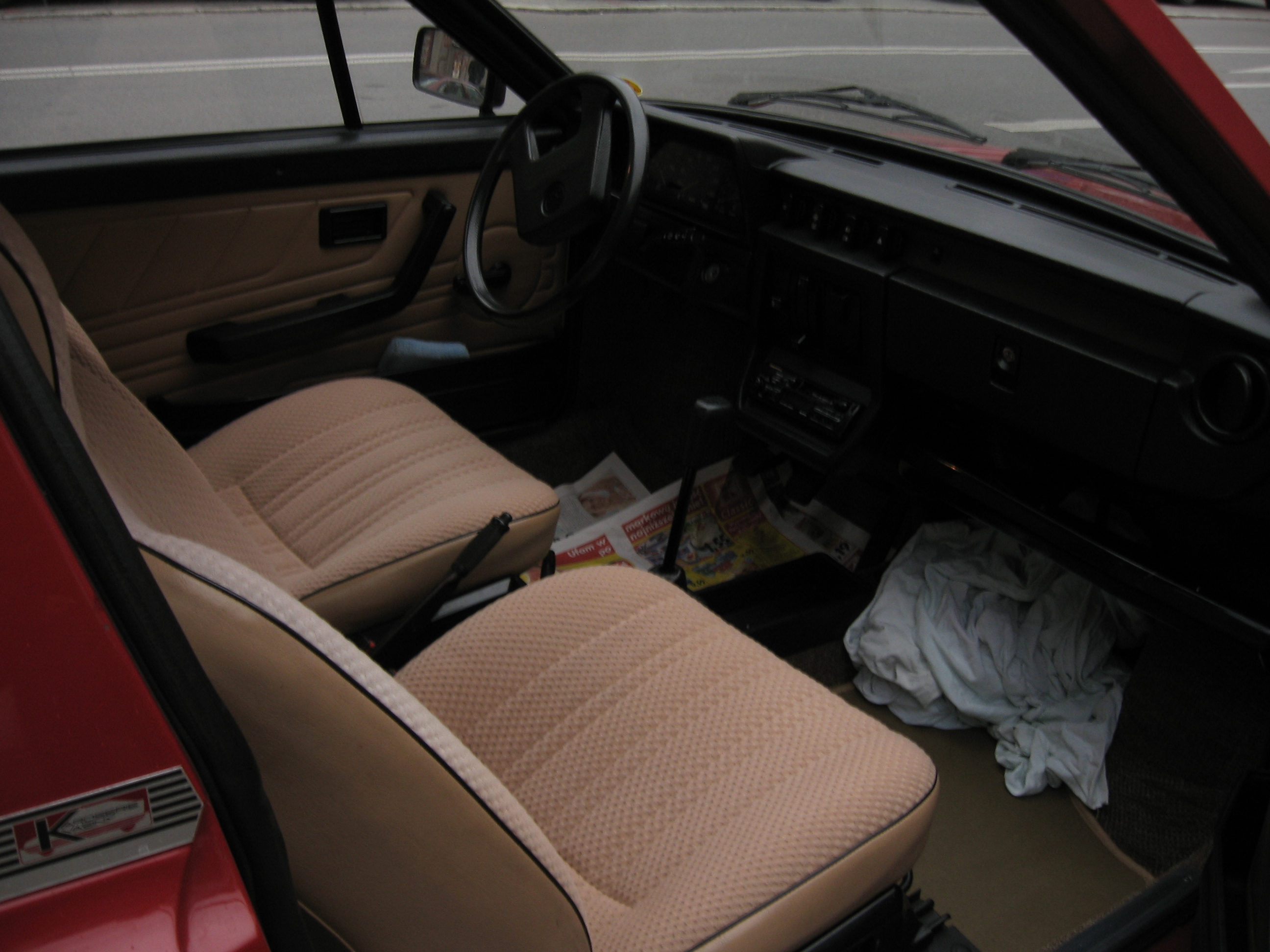 Škoda Rapid 136 5 speed in Kraków.